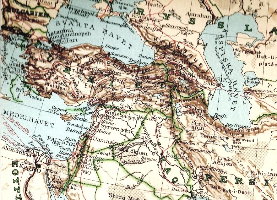 Map of Near East and India from the 1930 Swedish Atlas "Svensk världsatlas".